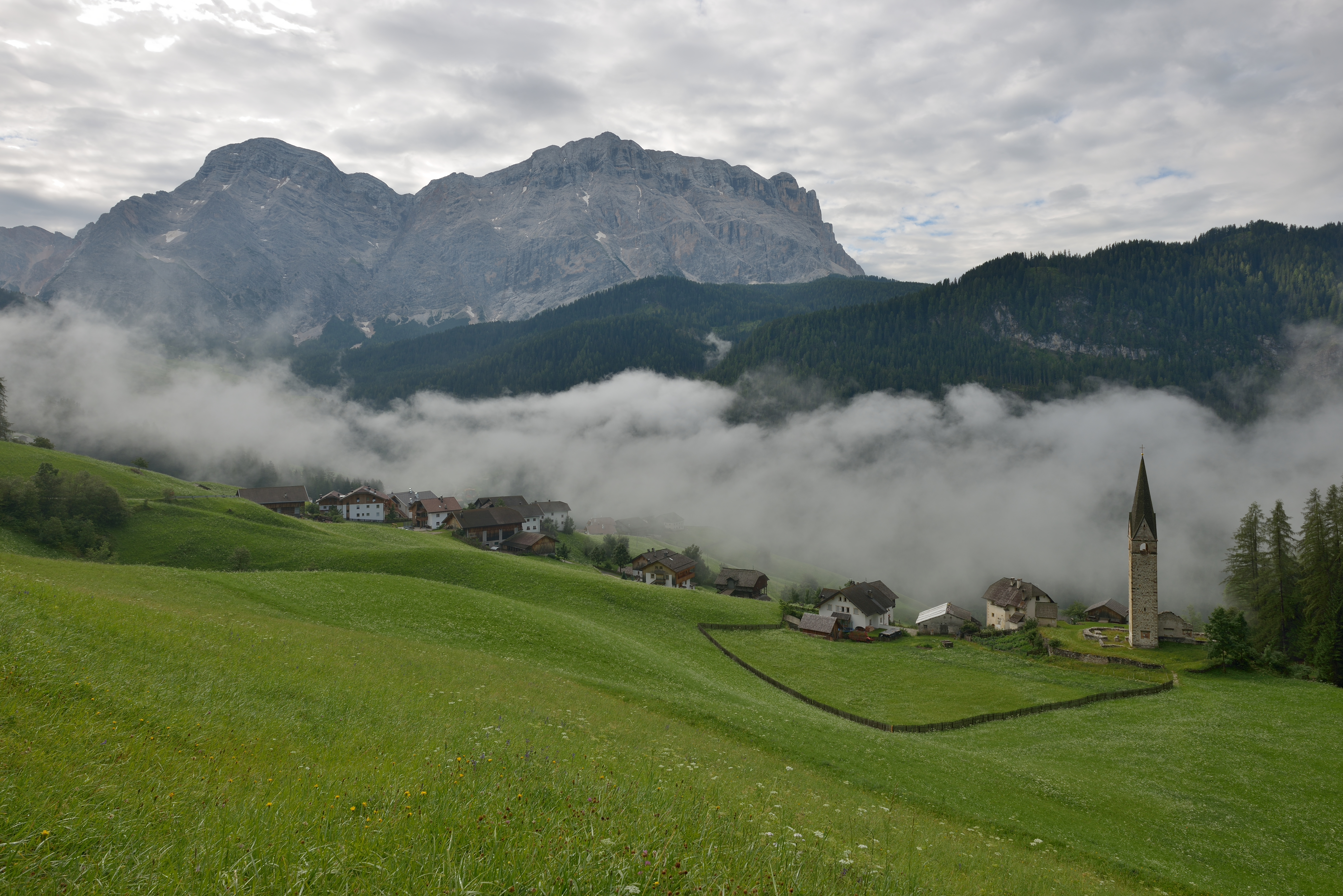 Old parish church in La Val - the Sas dles Nü and the Sas dles Diesc in the background